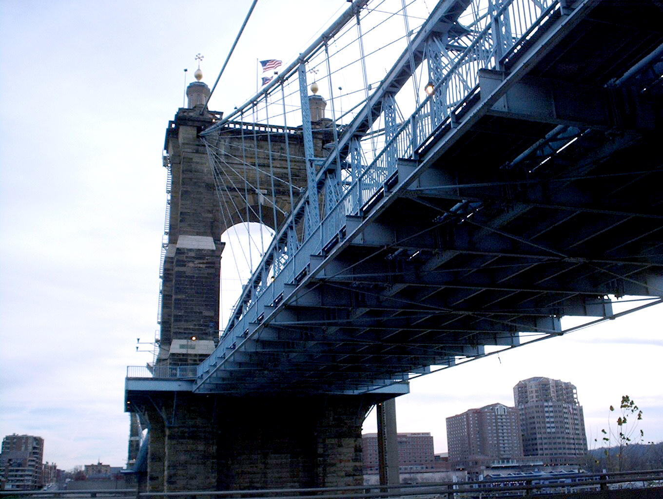 Roebling Suspension Bridge (the working model for the Brooklyn Bridge).